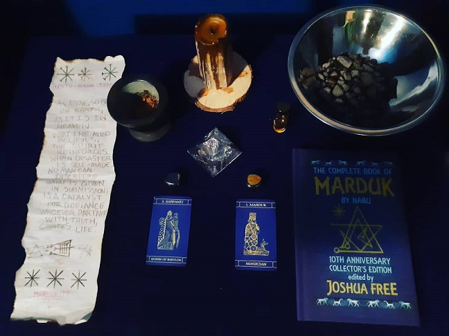 A simple altar of Mardukite Zuism, the Zuist tradition based on the teachings and practices elaborated by the American Zuist esotericist Joshua Free. The altar belongs to the practitioner David Zibert. On the right is The Complete Book of Marduk, one of the manuals of Mardukite Zuism. On the left is a sheet with a spell, decorated with six graphemes 𒀭 An or dingir ("God" and "deities") and a grapheme 𒍪 zu ("knowledge"). The spell reads: As above, so below, On Earth, as it is in Heaven. What the mind believes, The spirit reinforces. When disaster is self-made, No man can interfere. What is given in submission, Is a catalyst for defiance. Whoever partners with truth, Creates life.